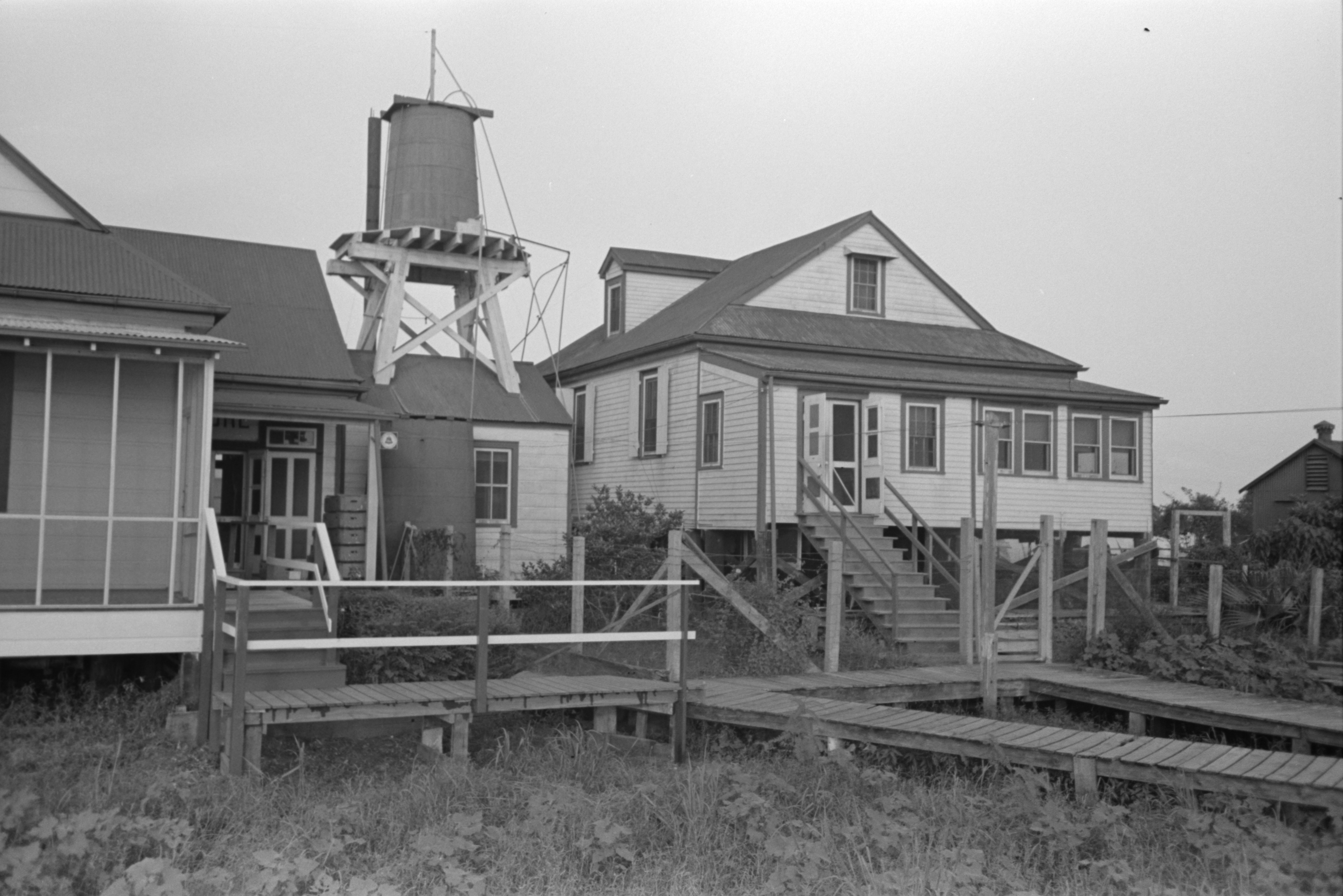 Pilottown, Louisiana, building and boardwalks, 1938